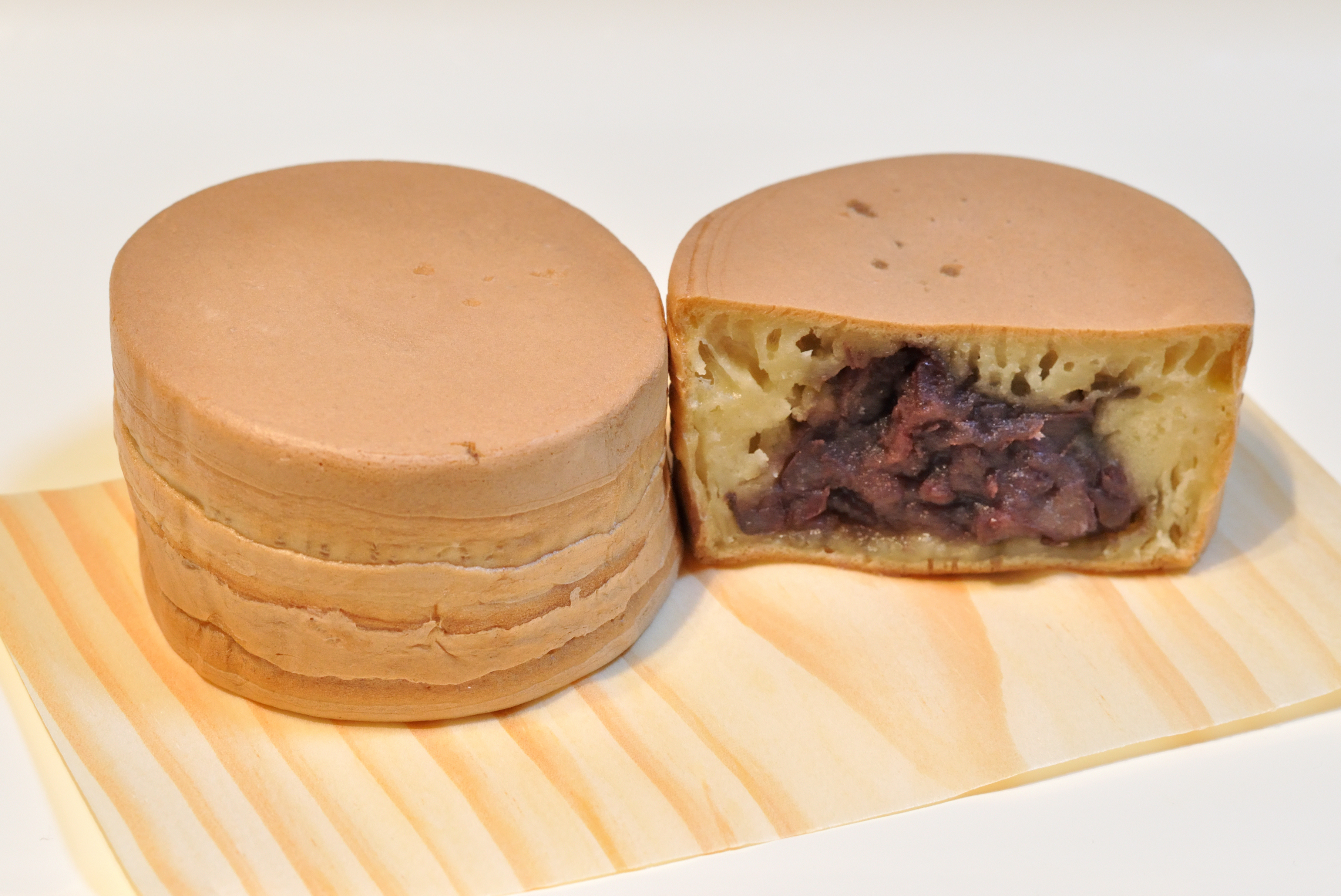 Imagawa-yaki, or Ohban-yaki.